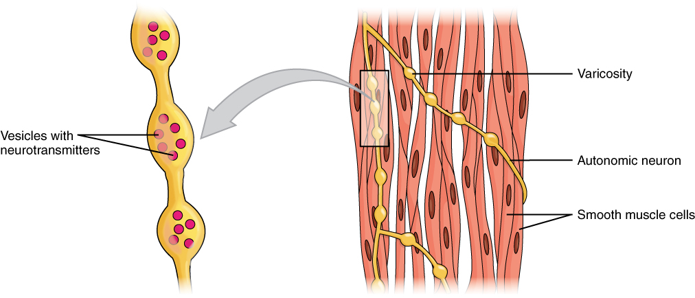 Version 8.25 from the Textbook OpenStax Anatomy and Physiology Published May 18, 2016